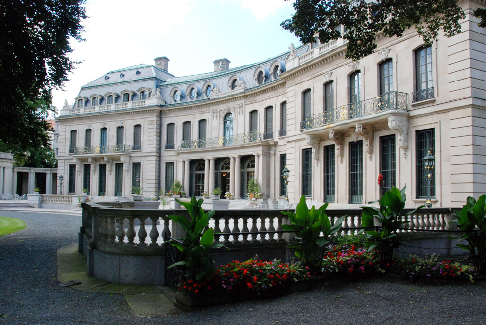 The Residence of the U.S. Ambassador in Prague’s Bubeneč was built by Otto Petschek in 1924—30.